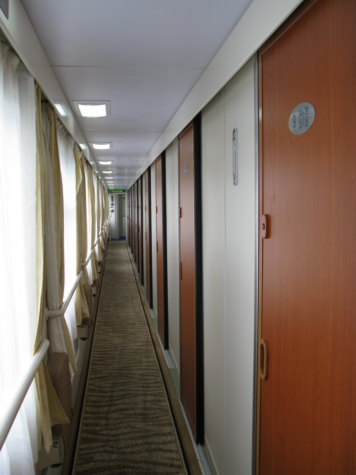 Interior of Shanghai-Kowloon Through Train (Z99/Z100) 25T Soft Sleeper Car